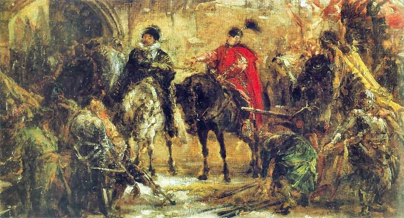 Zamoyski at Byczyna